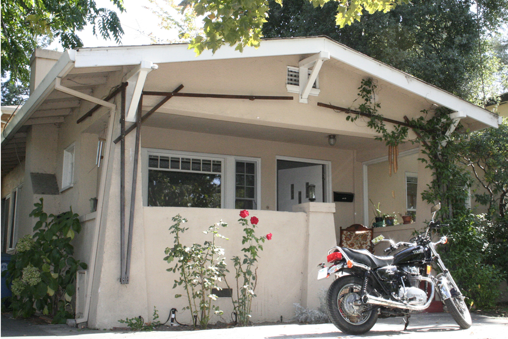 Ranch Style Bungalow — in Palo Alto, California. A California Bungalow (style). Category:Images of California